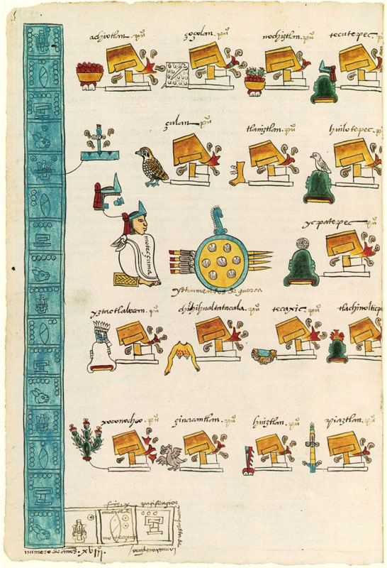 Folio 15v of the Codex Mendoza (16th century). Depicts the rule and conquests of Moctezuma II.